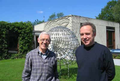 Photo of Robert Moody and Michael Baake